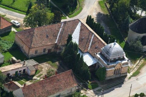 Sold Mansion, Mezőlak, Hungary, aerialphotography This is a photo of a monument in Hungary, Identifier: 6715